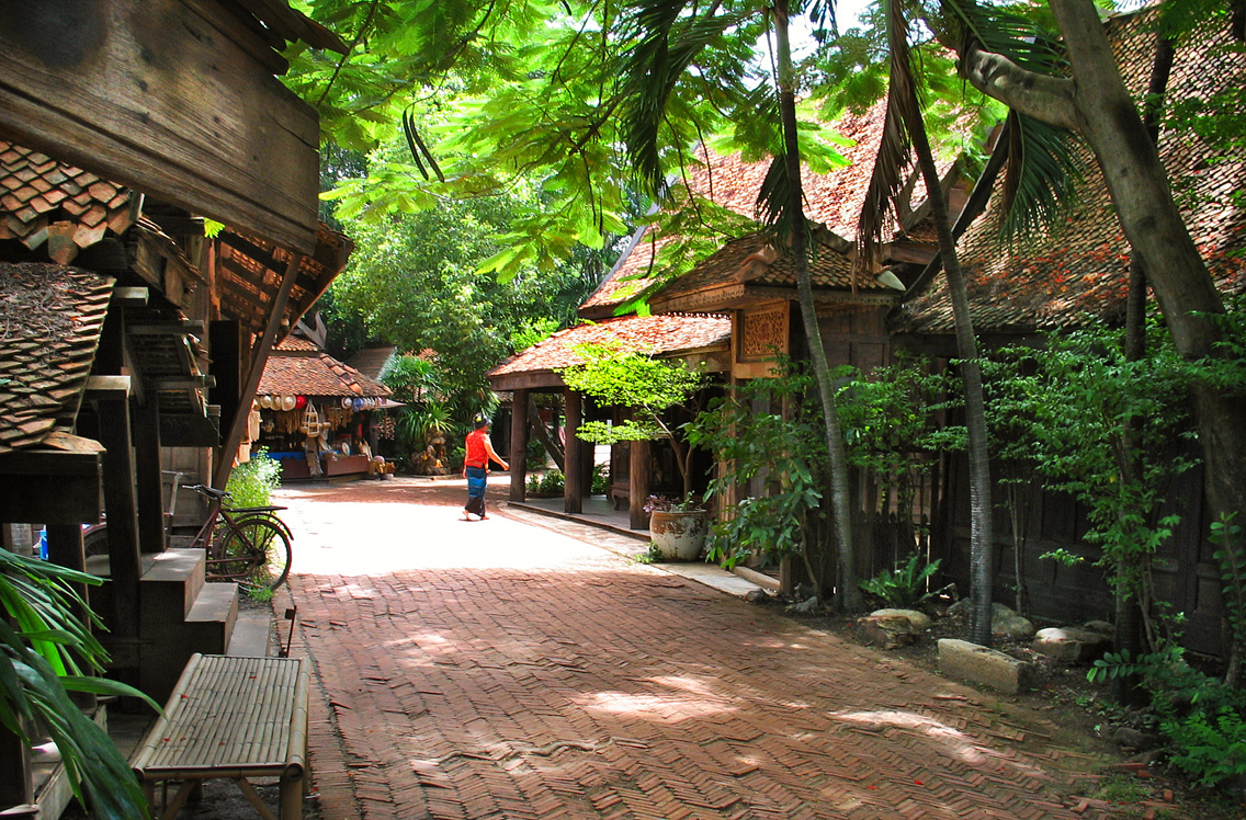 Mueang Boran open-air-museum near Bangkok (Thailand): "The Old Market Street".